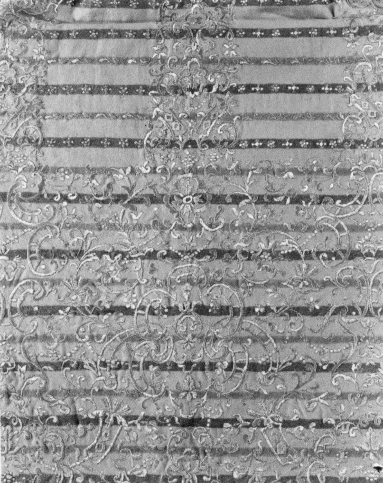 Mantua; British